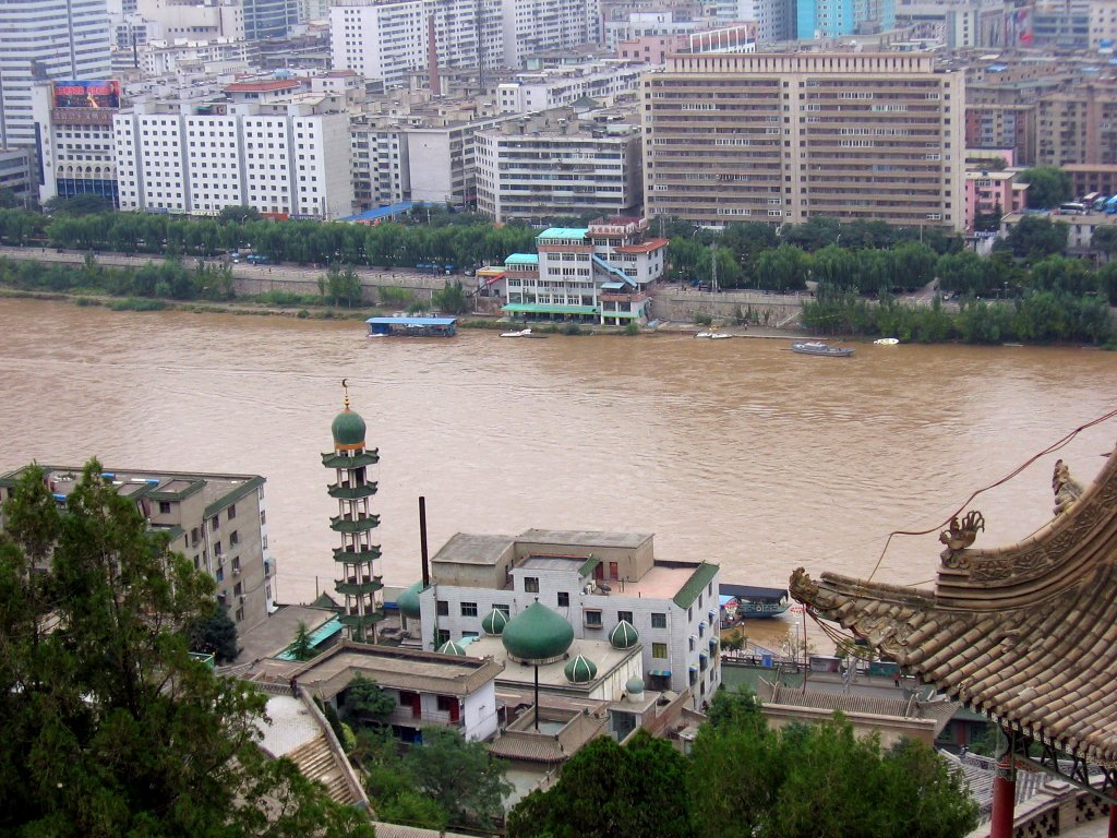 Lanzhou is the capital of Gansu province, China. Yellow river crossing Lanzhou from White pagoda hill. At tue bottom, "Shuishang Mosque of Lanzhou" (兰州水上清真寺) Digital photo taken by author and post-processed with The GIMP.